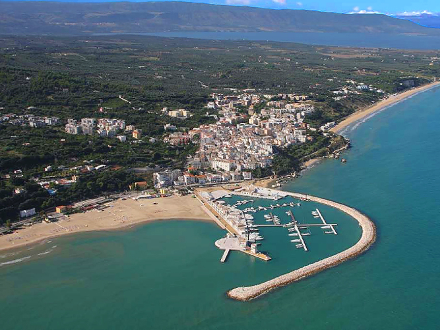 Rodi Garganico, aerial view